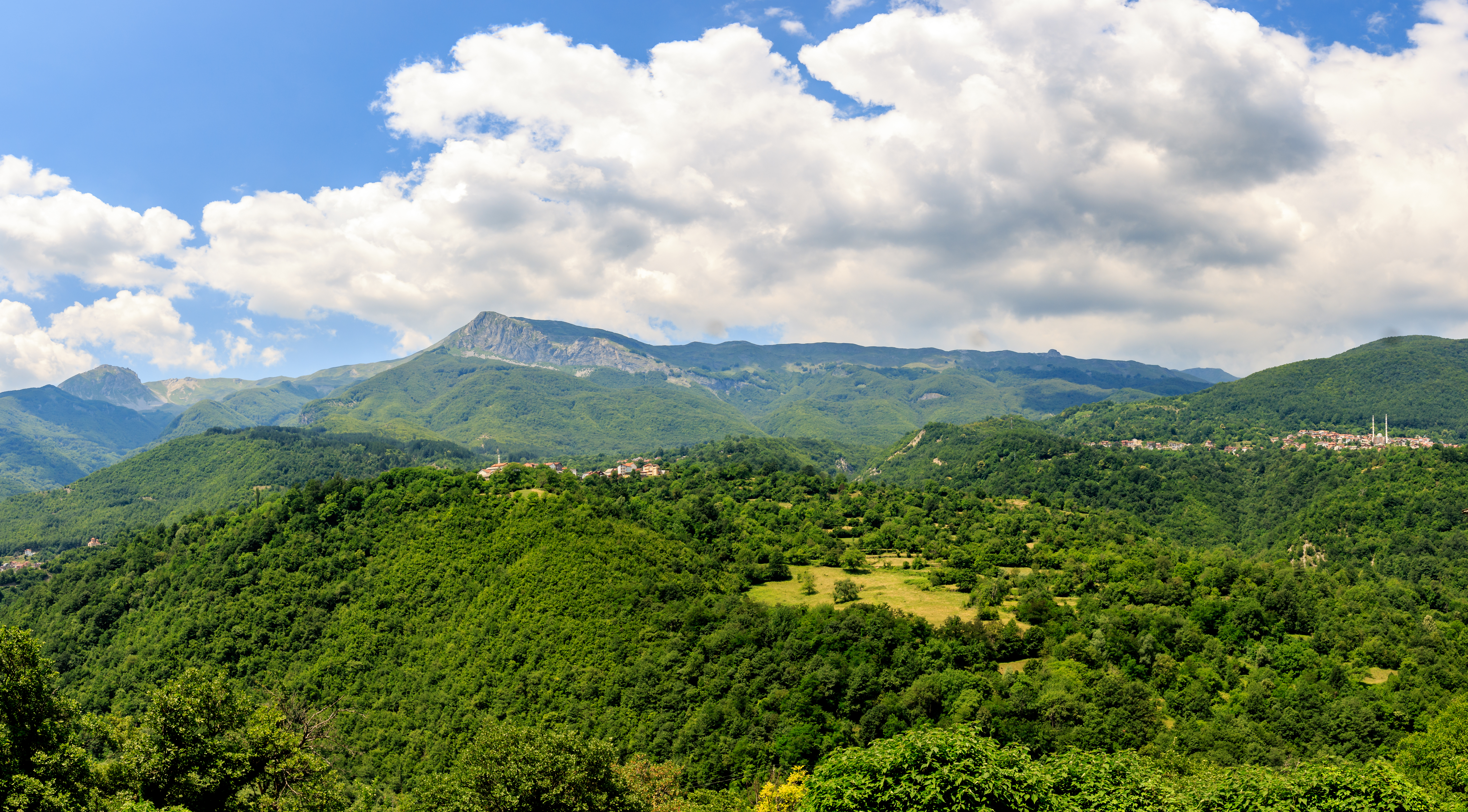 View of the some villages beyond the mountain Dešat